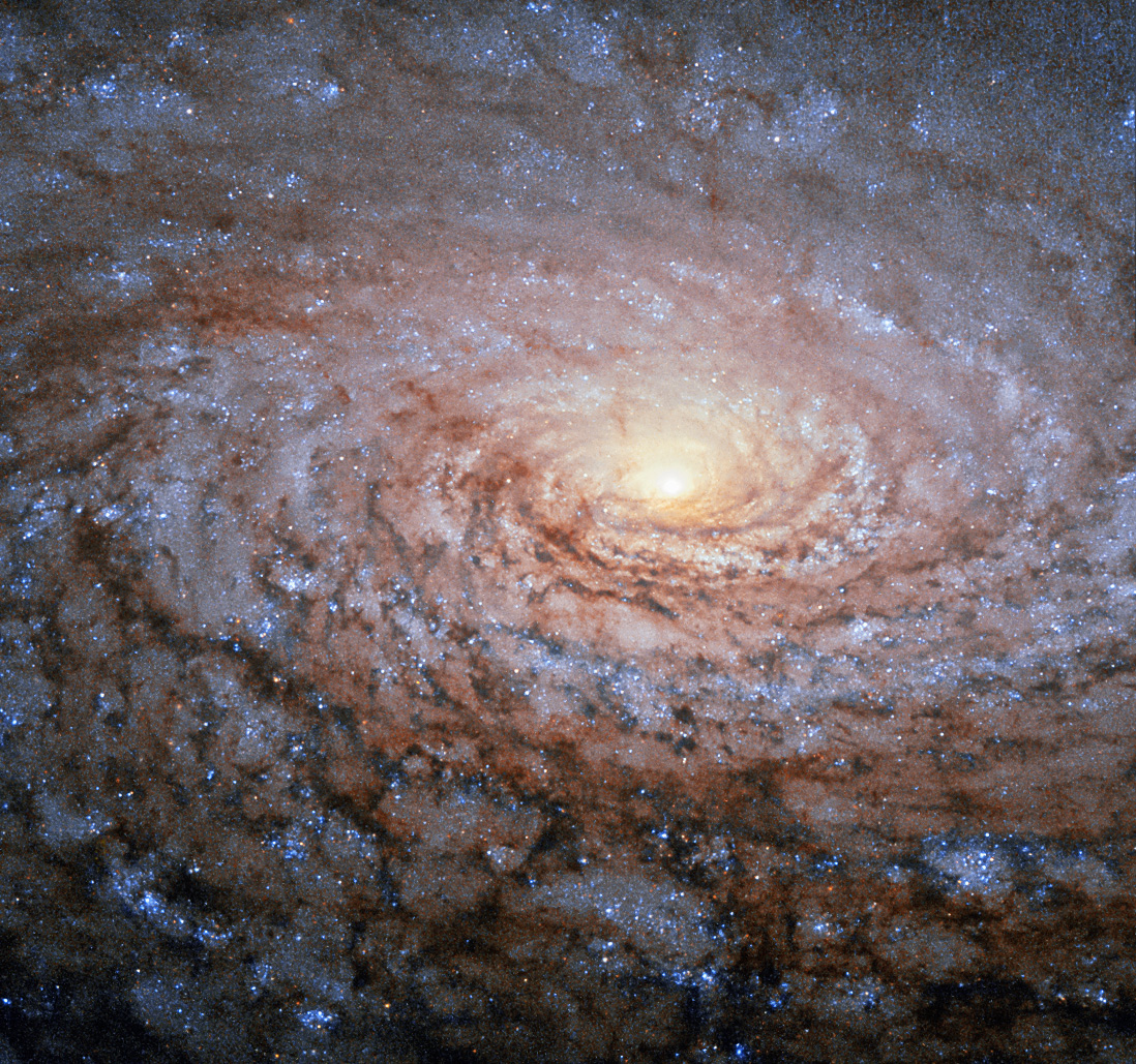 The arrangement of the spiral arms in the galaxy Messier 63, seen here in a new image from the NASA/ESA Hubble Space Telescope, recall the pattern at the centre of a sunflower. So the nickname for this cosmic object — the Sunflower Galaxy — is no coincidence. Discovered by Pierre Mechain in 1779, the galaxy later made it as the 63rd entry into fellow French astronomer Charles Messier’s famous catalogue, published in 1781. The two astronomers spotted the Sunflower Galaxy’s glow in the small, northern constellation Canes Venatici (the Hunting Dogs). We now know this galaxy is about 27 million light-years away and belongs to the M51 Group — a group of galaxies, named after its brightest member, Messier 51, another spiral-shaped galaxy dubbed the Whirlpool Galaxy. Galactic arms, sunflowers and whirlpools are only a few examples of nature’s apparent preference for spirals. For galaxies like Messier 63 the winding arms shine bright because of the presence of recently formed, blue–white giant stars, readily seen in this Hubble image.